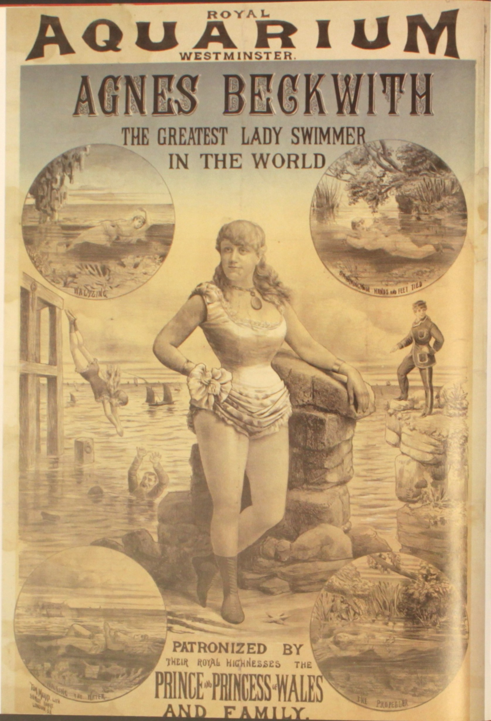 Agnes Beckwith greatist swimmer poster from 1885